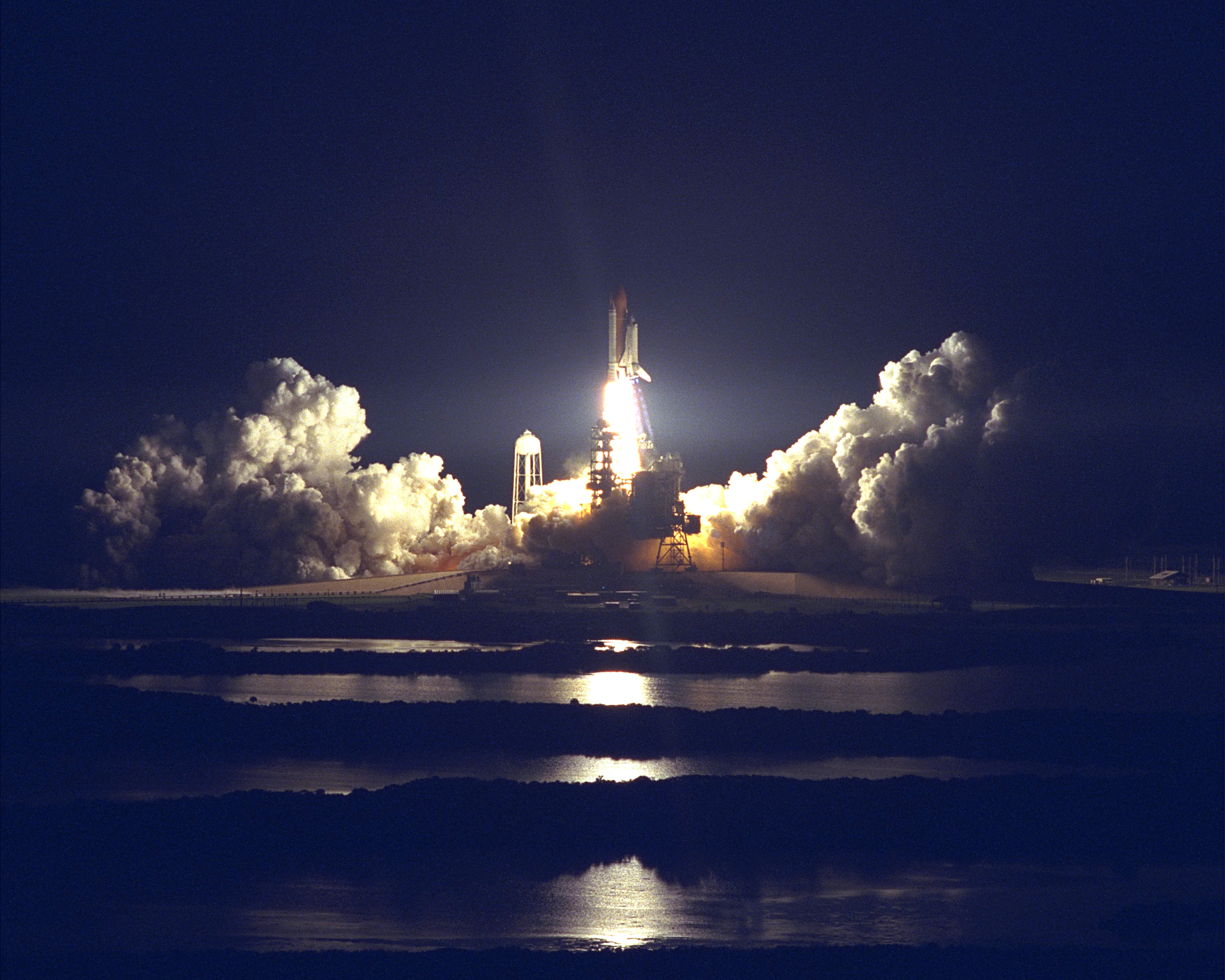 The Space Shuttle Atlantis blazes through the night sky to begin the STS-86 mission, slated to be the seventh of nine planned dockings of the Space Shuttle with the Russian Space Station Mir. Liftoff on September 25 from Launch Pad 39A was at 10:34 p.m. EDT, within seconds of the preferred time, during a six minute, 45 second launch window. The 10 day flight will include the transfer of the sixth U.S. astronaut to live and work aboard the Mir. After the docking, STS-86 Mission Specialist David A. Wolf will become a member of the Mir 24 crew, replacing astronaut C. Michael Foale, who will return to Earth aboard Atlantis with the remainder of the STS-86 crew. Foale has been on the Russian Space Station since mid May. Wolf is scheduled to remain there about four months. Besides Wolf (embarking to Mir) and Foale (returning), the STS-86 crew includes Commander James D. Wetherbee, Pilot Michael J. Bloomfield, and Mission Specialists Wendy B. Lawrence, Scott E. Parazynski, Vladimir Georgievich Titov of the Russian Space Agency, and Jean-Loup J.M. Chretien of the French Space Agency, CNES. Other primary objectives of the mission are a spacewalk by Parazynski and Titov, and the exchange of about 3.5 tons of science/logistical equipment and supplies between Atlantis and the Mir.